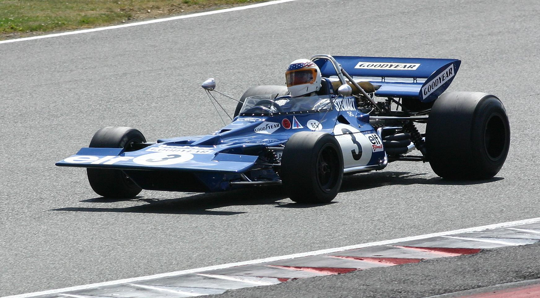 The Tyrrell 001 at the 2008 Silverstone Classic race meeting.